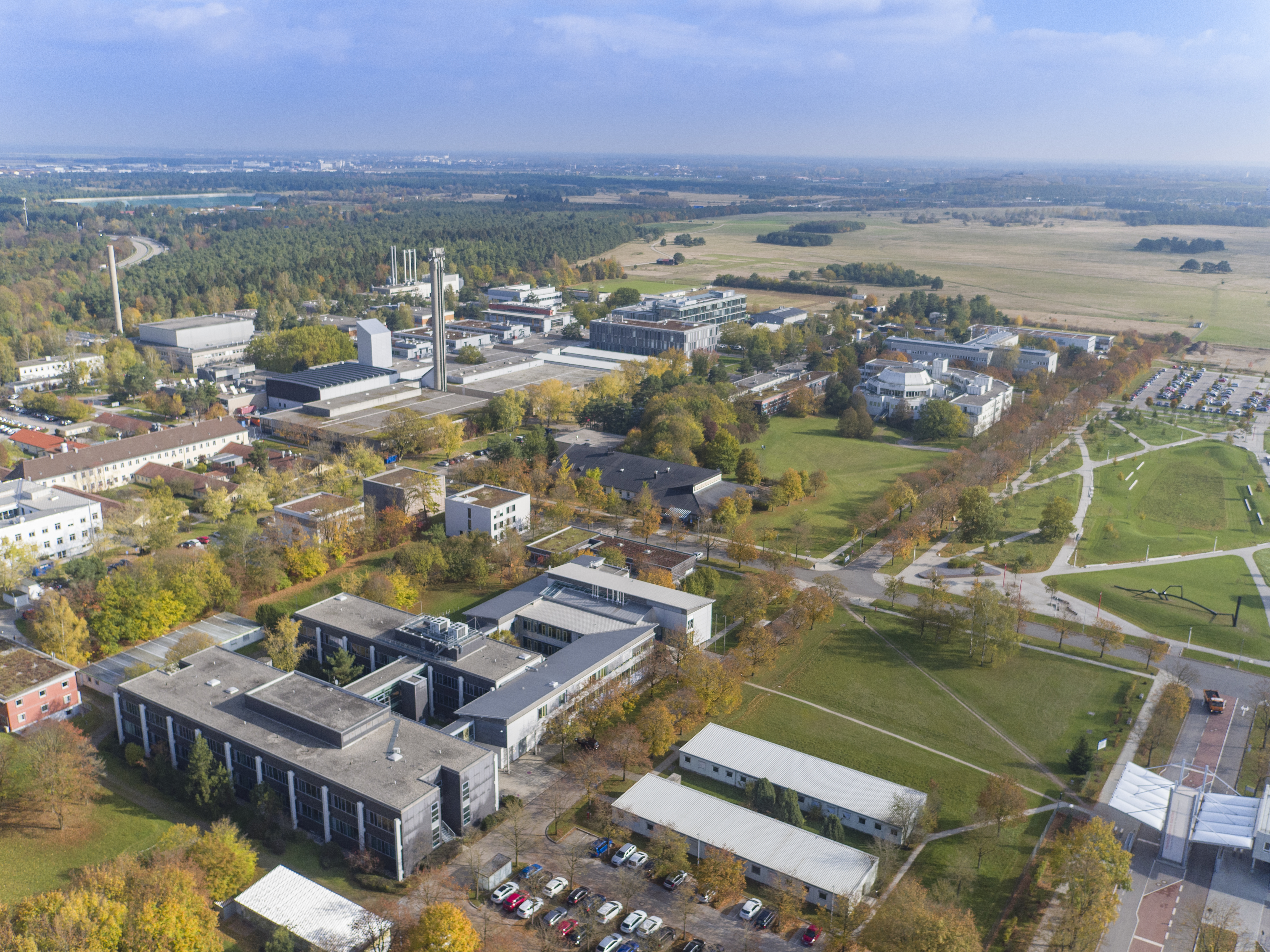 Aerial picture of the Campus of the Helmholtz Zentrum Muenchen